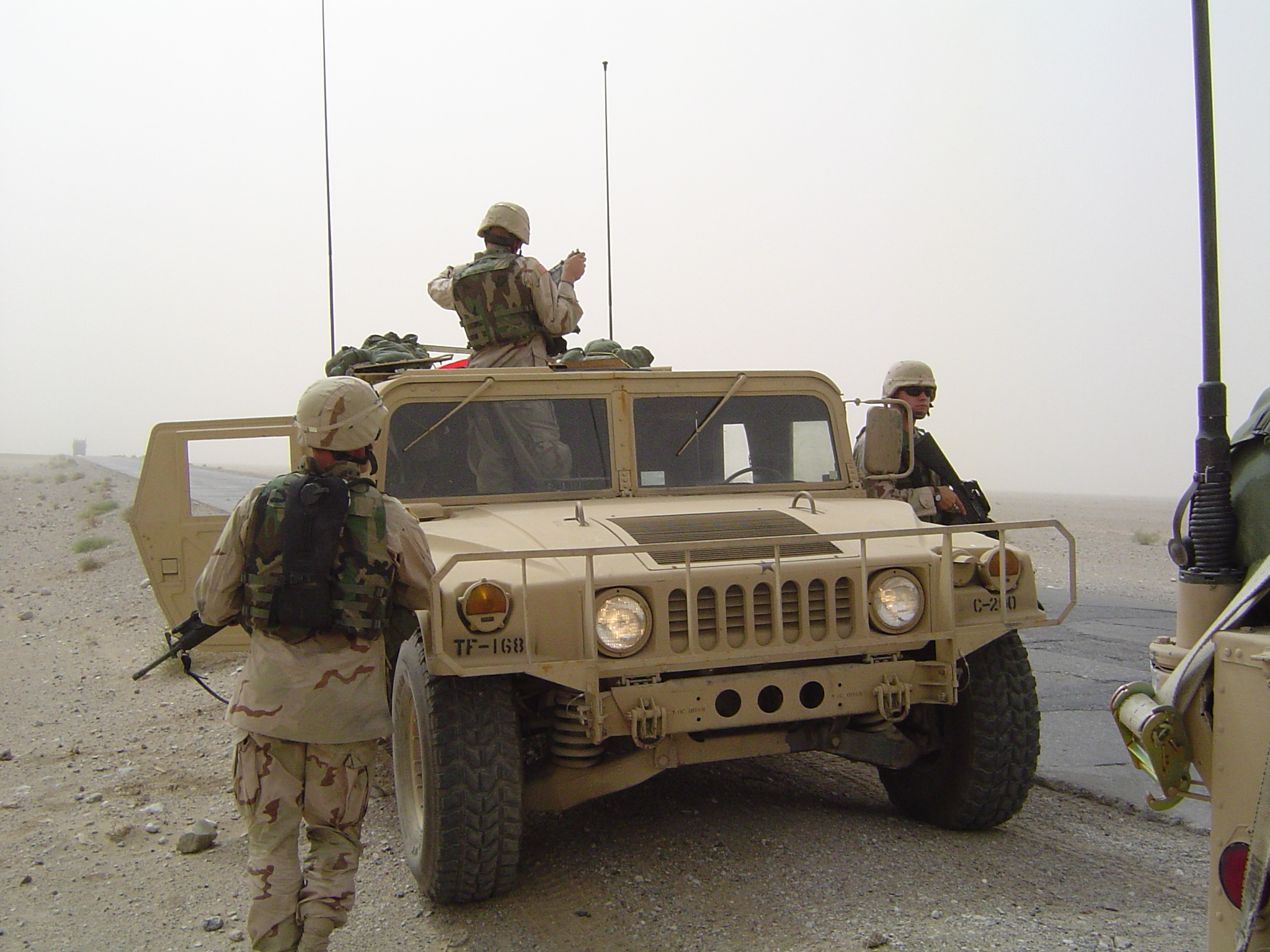 US soldiers patrolling a highway in Afghanistan